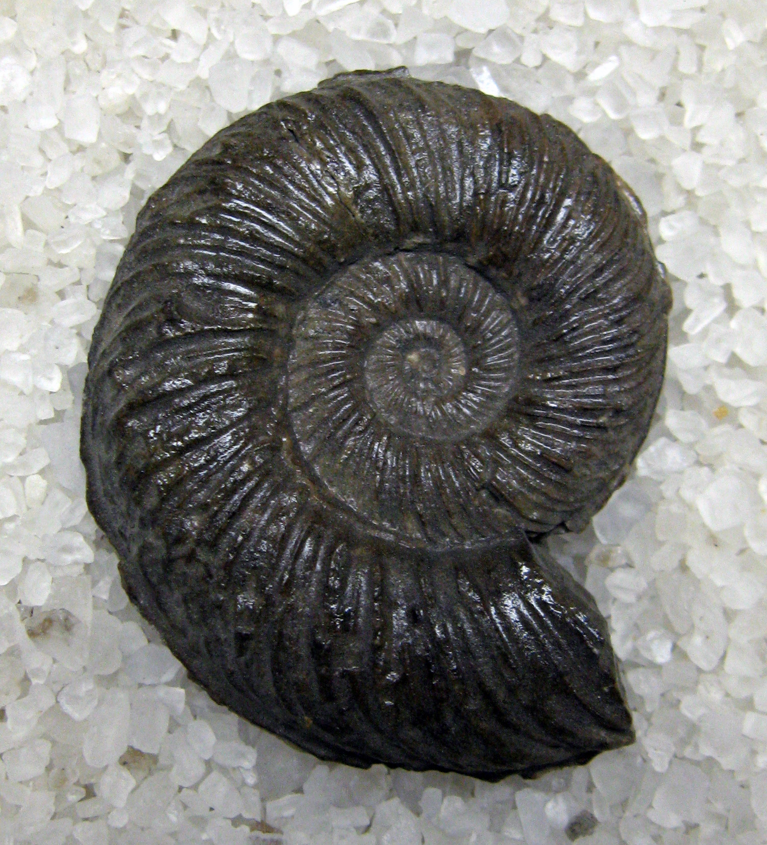 A ~4.5cm in diameter fossil Prionocyclus wyomingensis Cretaceous, from Emery County, Utah, USA. Stonerose Interpretive Center, Gary Eichhorn Ammonite Collection #SR EA 07-03-08.